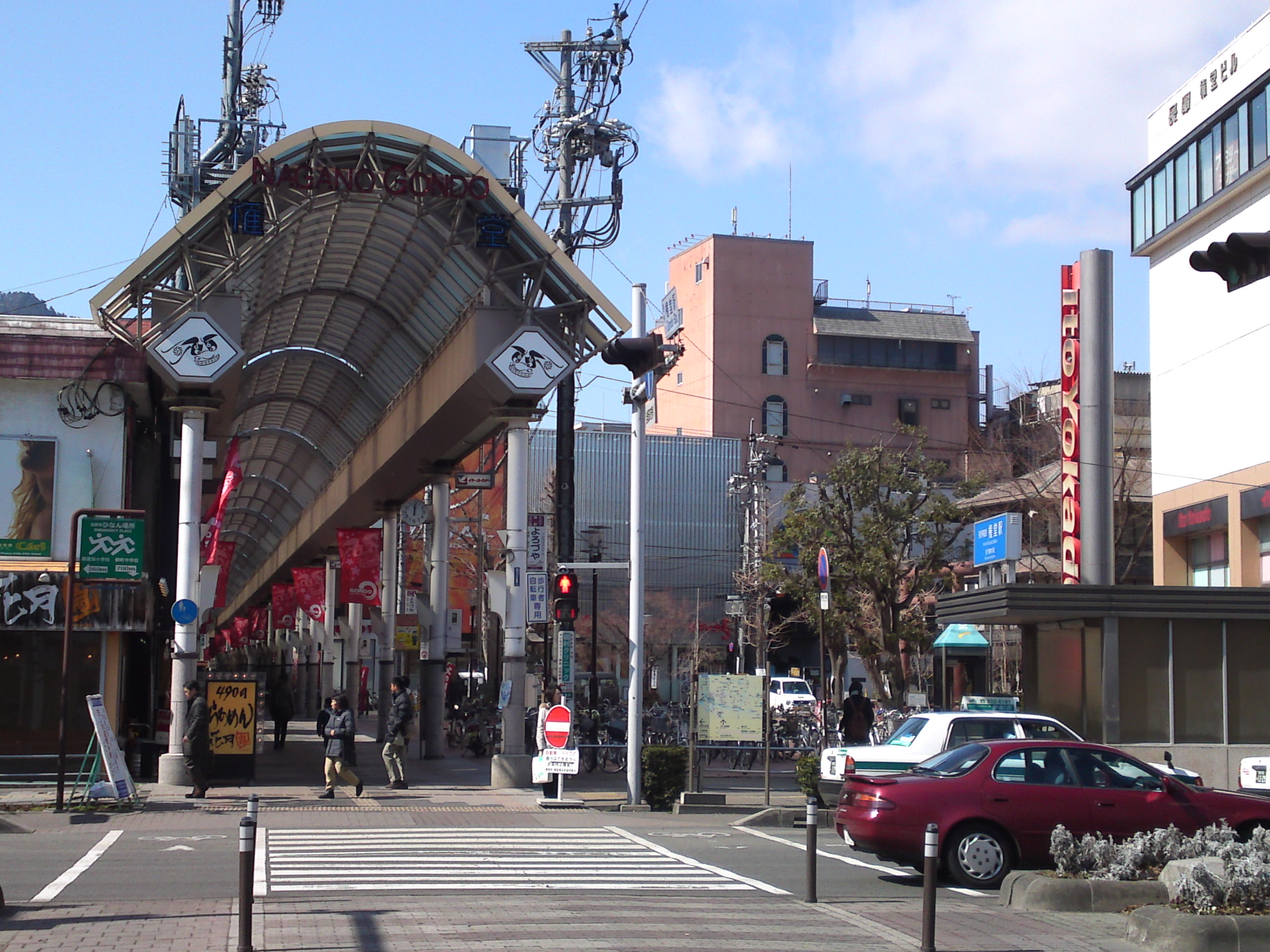 East Entrance of Gondo Arcade, Nagano City, Japan